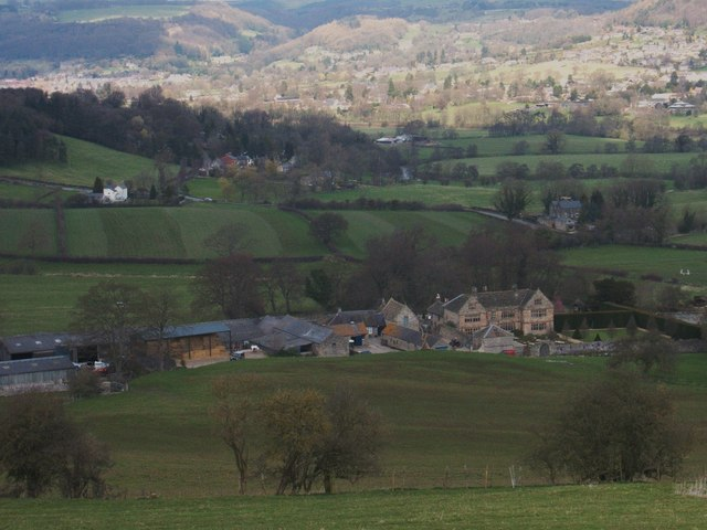 Snitterton Hall Elizabethan manor house, the only Grade 1 Listed building in Matlock